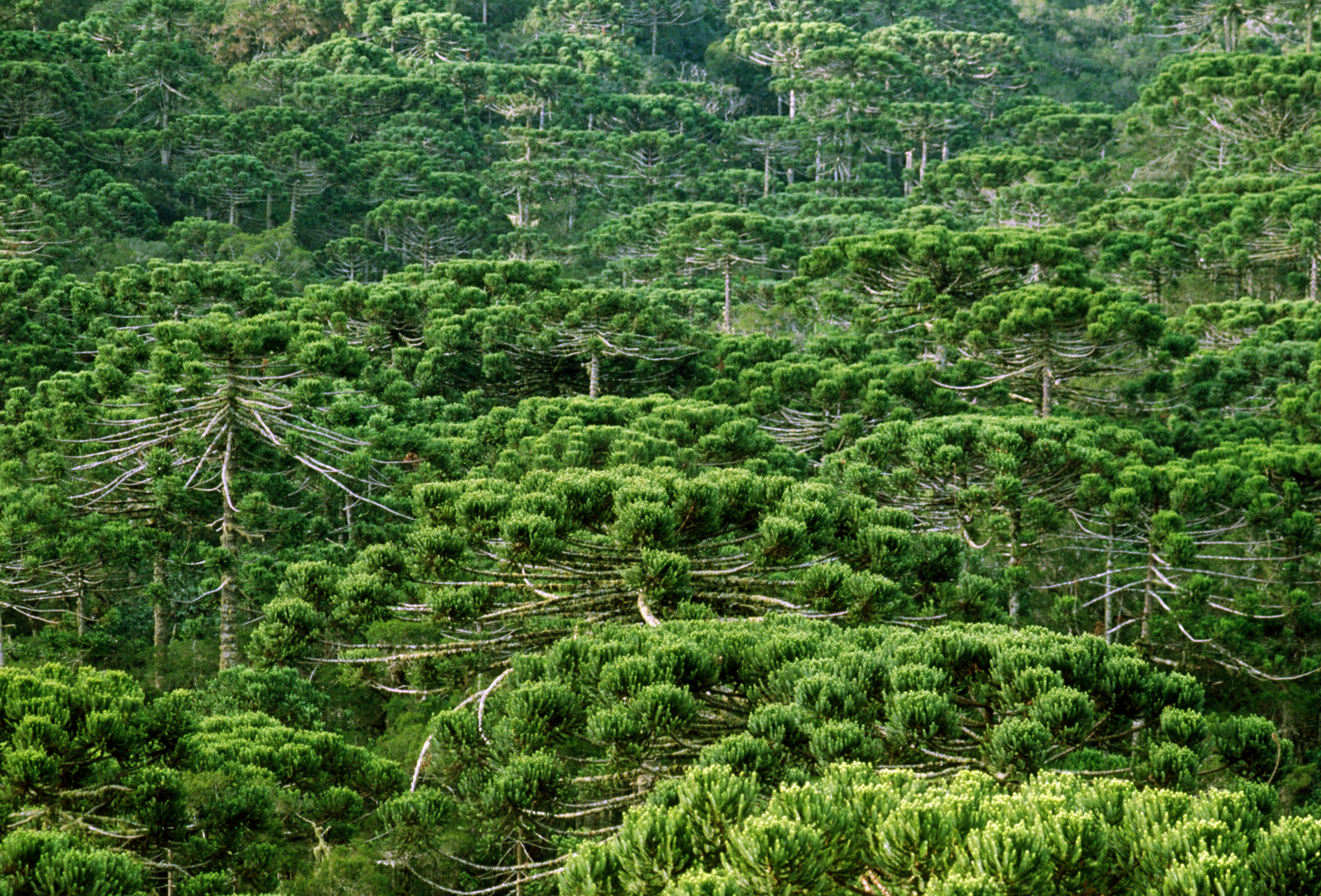 Araucaria (Araucaria angustifolia) Campos do Jordão, São Paulo, Brazil 1982